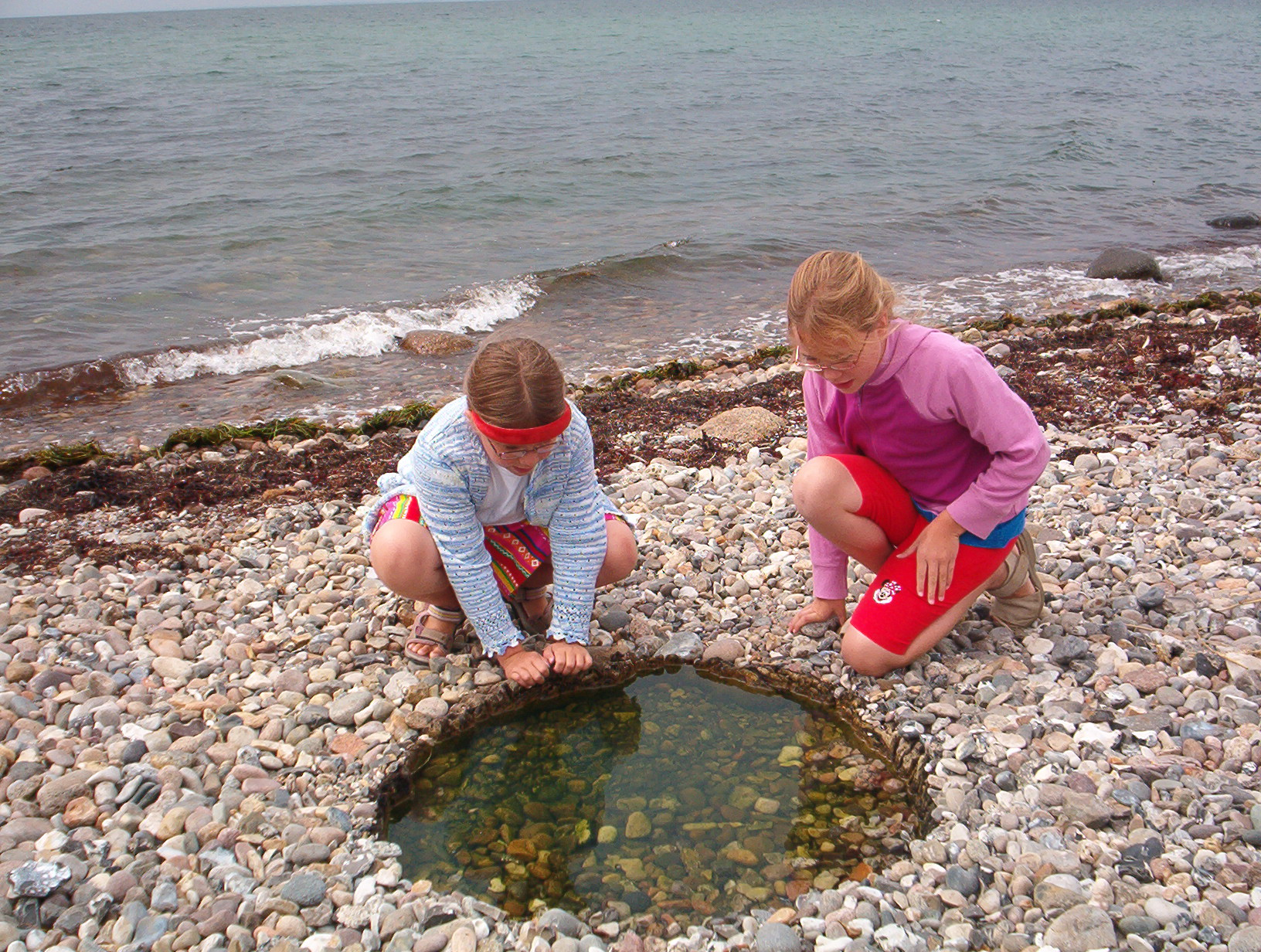 Ilse Made kilde, a "holy well" on Samsø Source: Photo taken by Bruger:Palnatoke